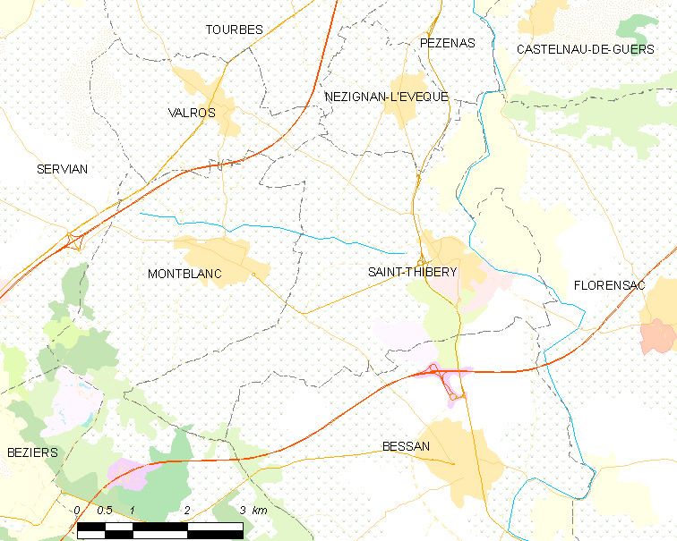 Map commune FR insee code 34289.png - Saint-Thibéry